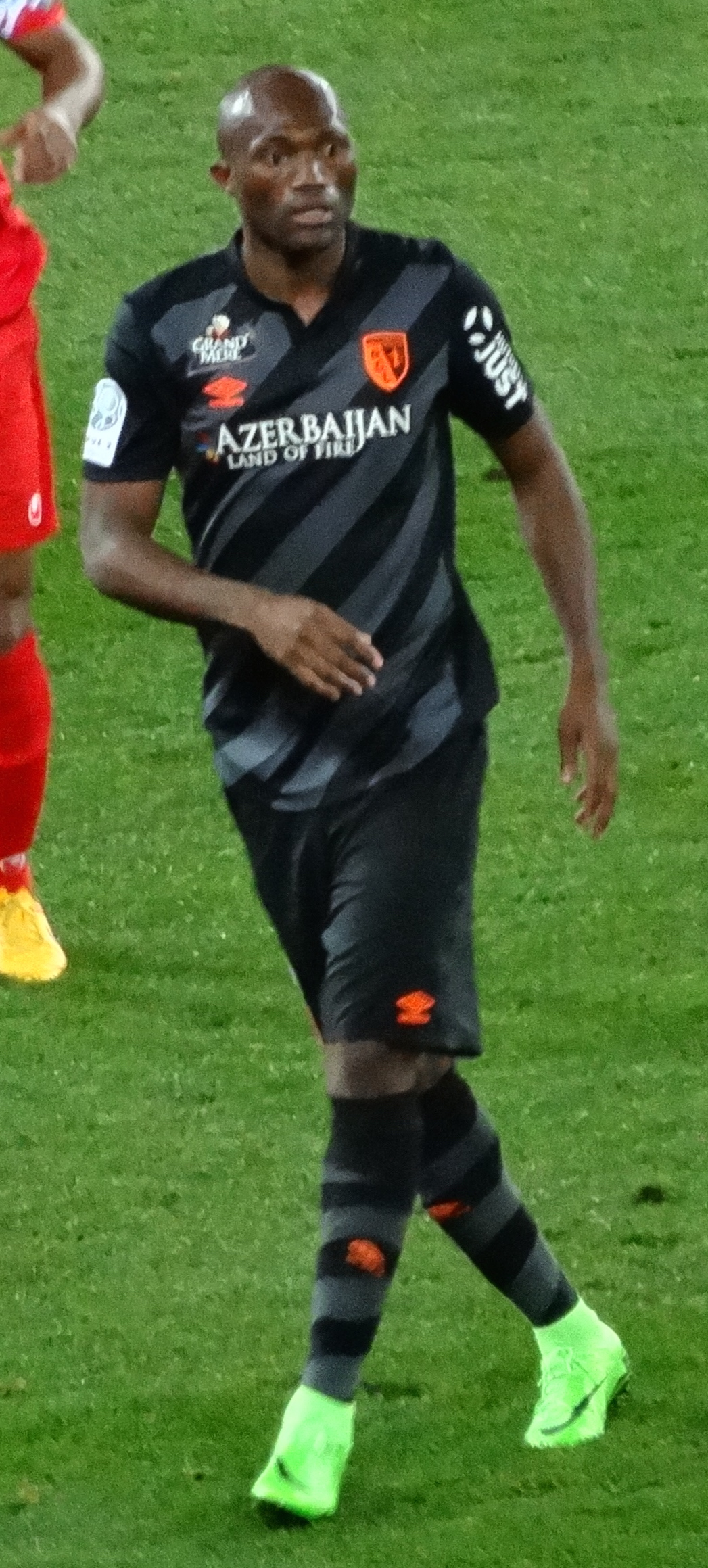 Bekamenga